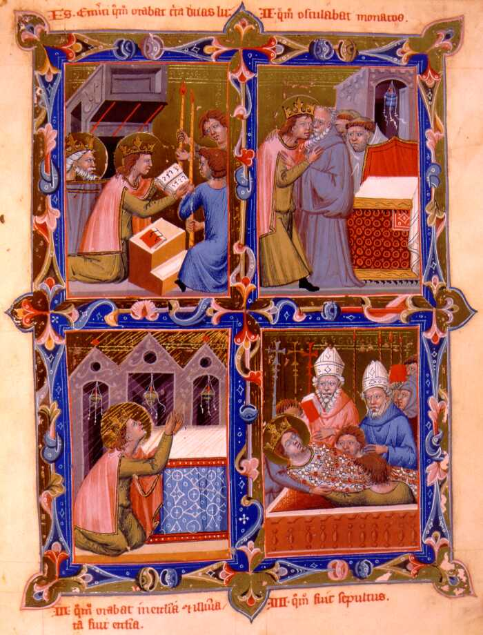 Anjou Legendarium